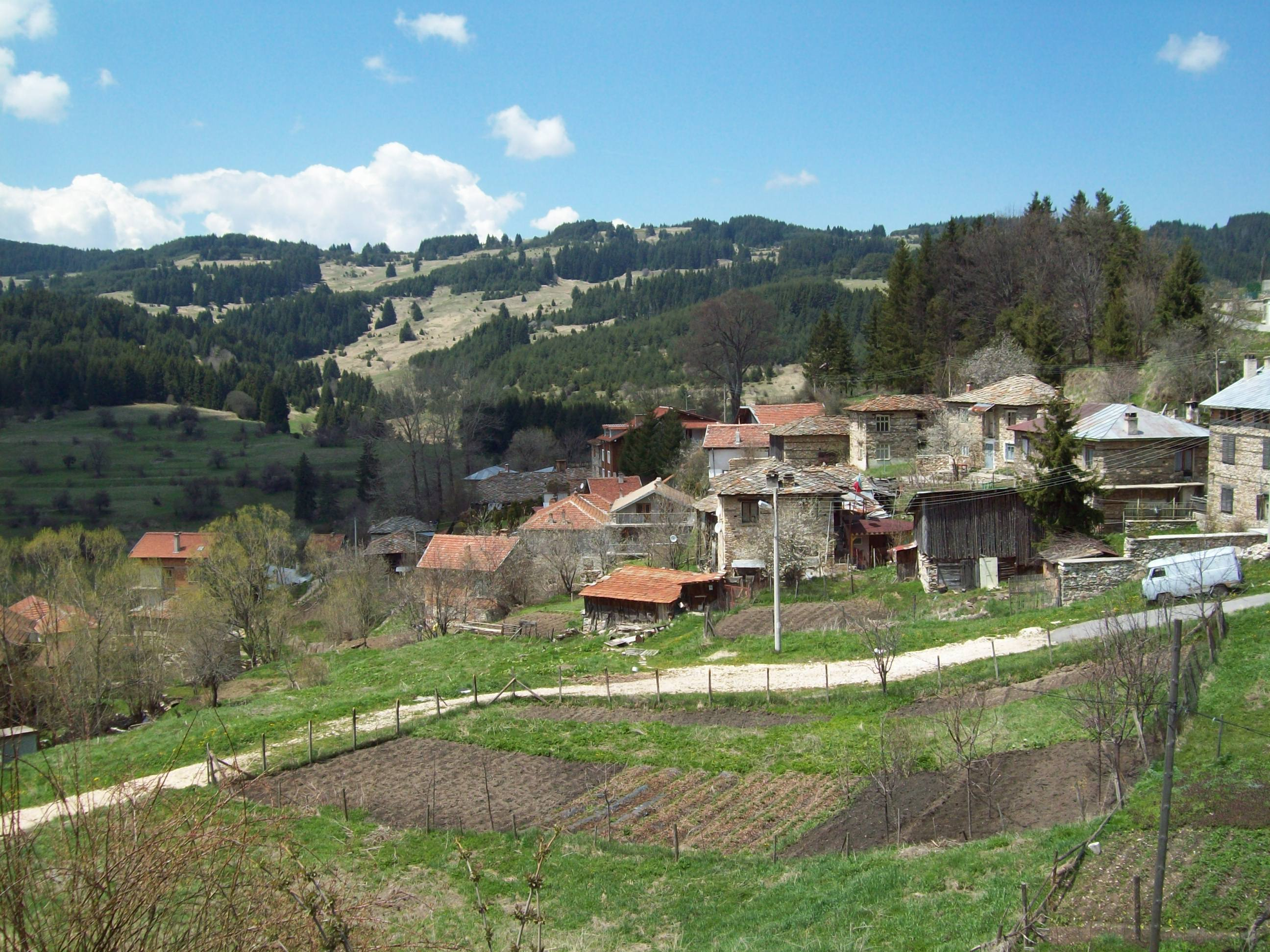 Lilkovo vilage